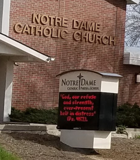 Notre Dame Catholic Church, Denver, CO sign during Coronavirus pandemic